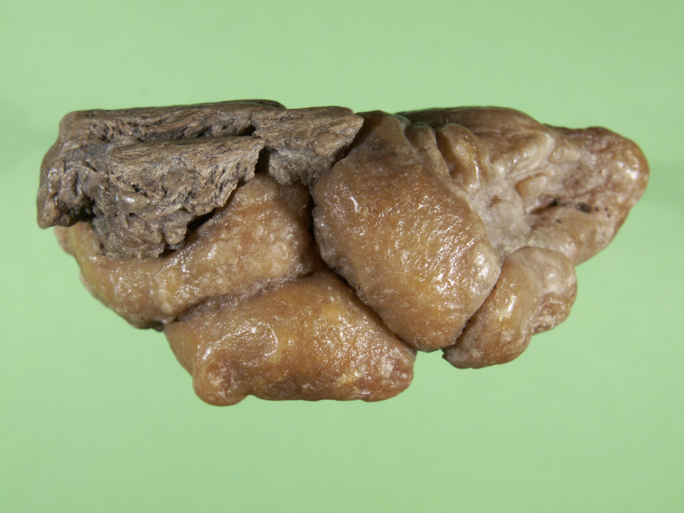 Amber from Bitterfeld, beckerite